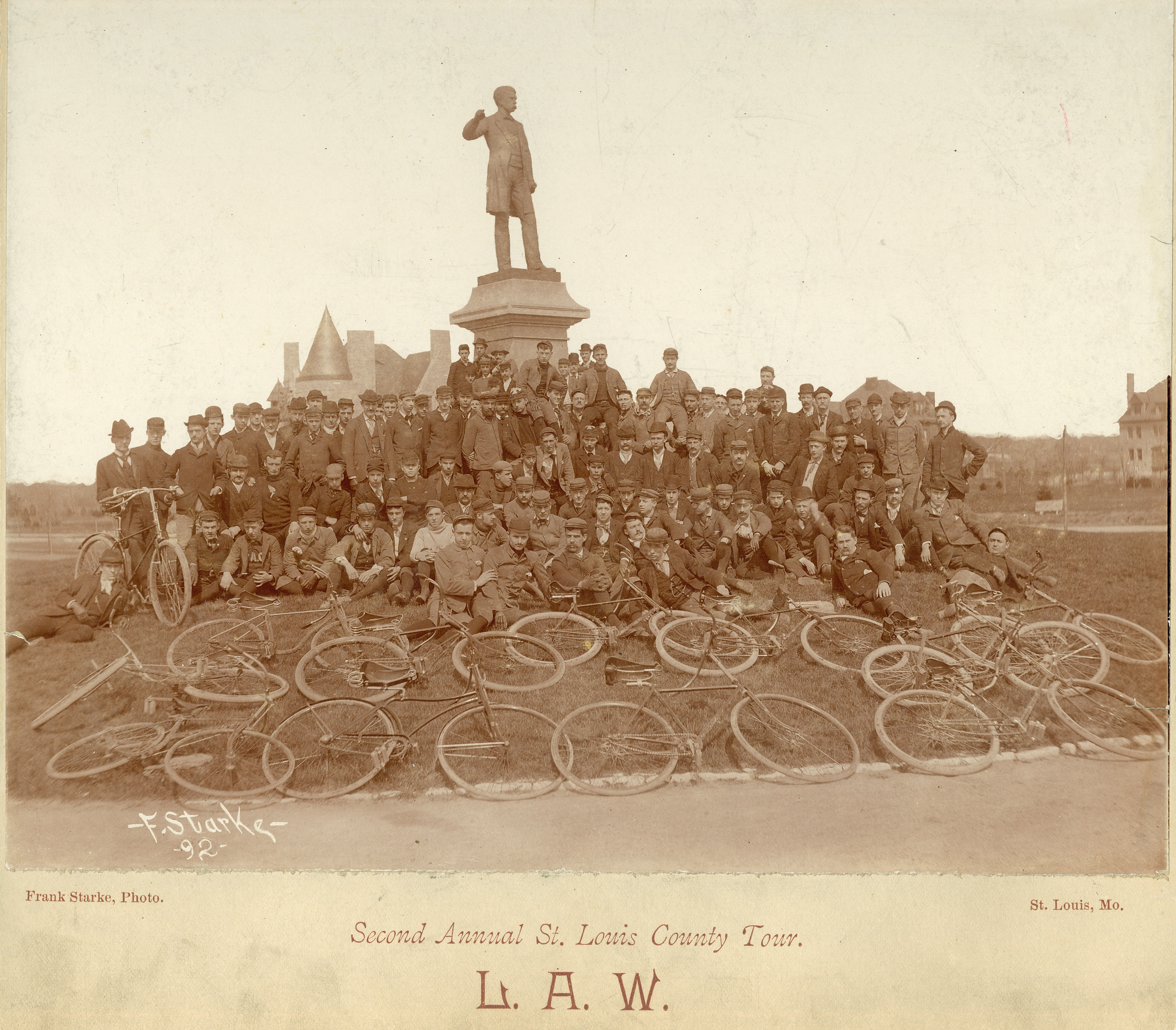 Bicyclists of the League of American Wheelmen pose by the Frank Blair statue at the northeast corner of Forest Park before the second annual St. Louis County Bicycle Tour. Cycling was popular as a means of transportation and recreation at the turn of the twentieth century. By the early 1900s cyclists, pedestrians, and motorists were struggling to coexist on busy St. Louis roads. Cycling proponents lobbied for a bicycle license tax that would fund the construction of bicycle paths, but the tax never passed. Cycling races like the 1894 Forest Park bicycle race were popular with both cyclists and spectators and drew contestants from as far away as Chicago.Title: Bicyclists of the League of American Wheelmen pose by the Frank Blair statue at the northeast corner of Forest Park before the second annual St. Louis County Bicycle Tour.